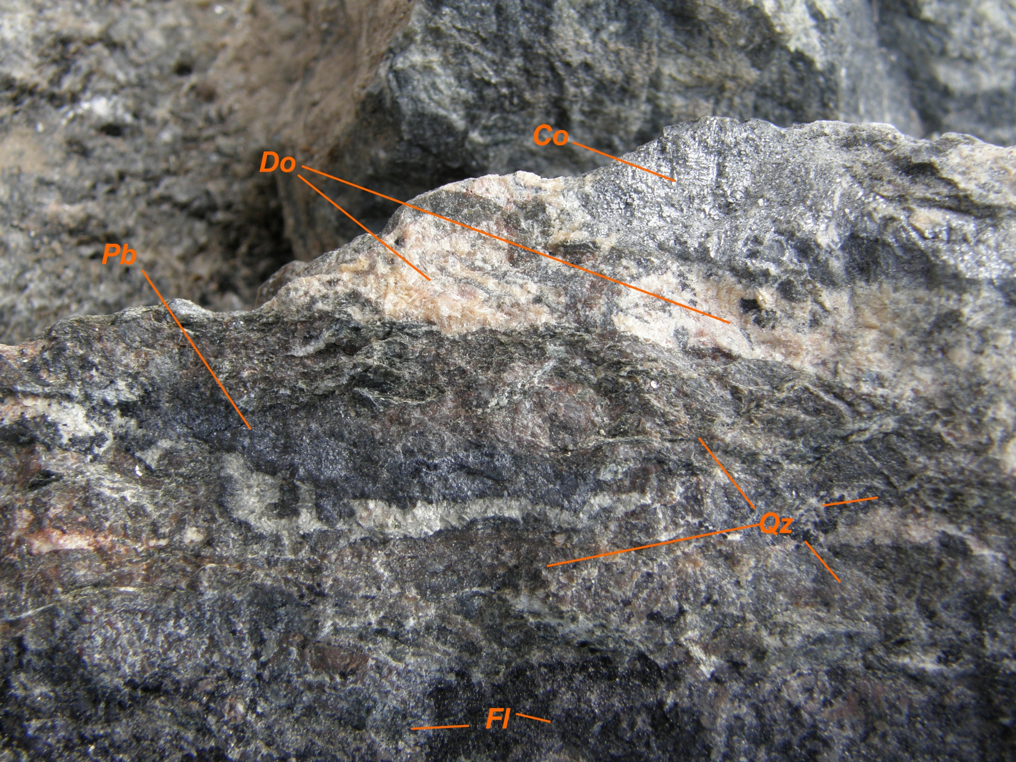 Ore from Shaft 139, Marienberg, Erzgebirge Mts., Germany; Co: Co-Arsenide; Do: Dolomite; Pb: Pitchblende; Qz: Quartz; Fl: Fluorite (black)